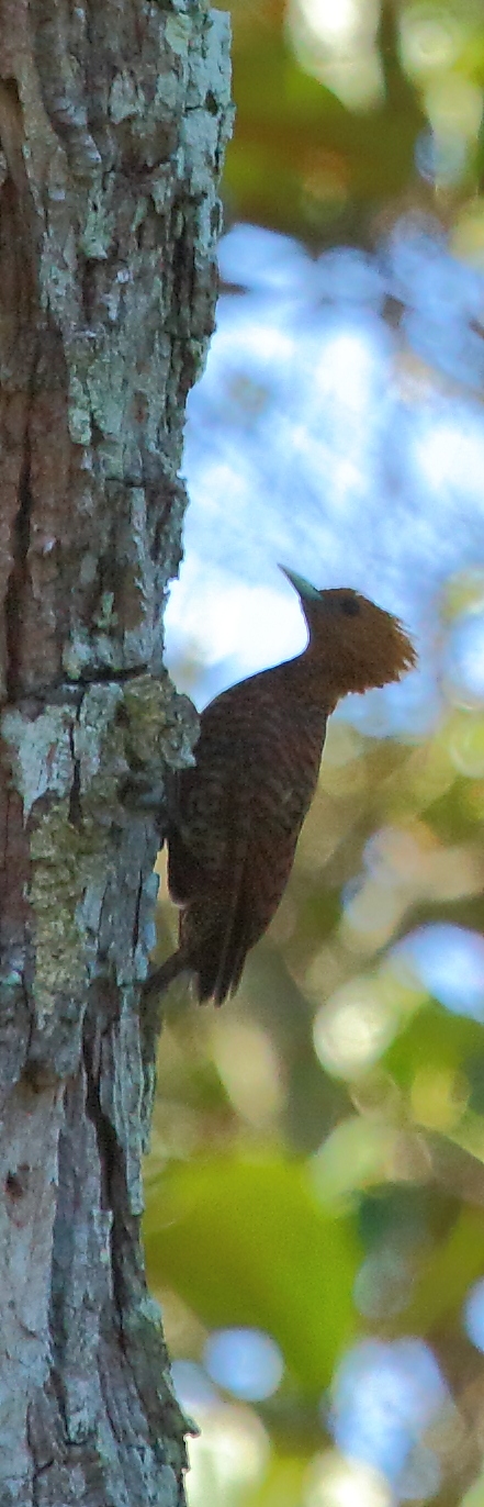 Waved woodpecker (Celeus undatus) iwokrama mar2015